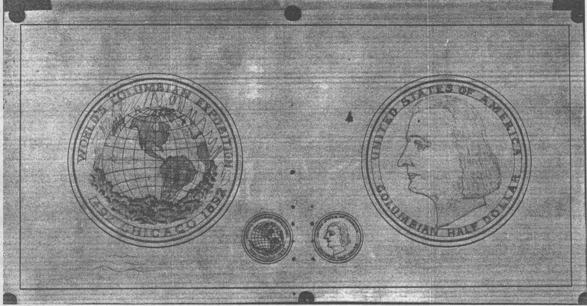 Original sketches by Charles Barber for the Columbian half dollar commemorative, August 1892